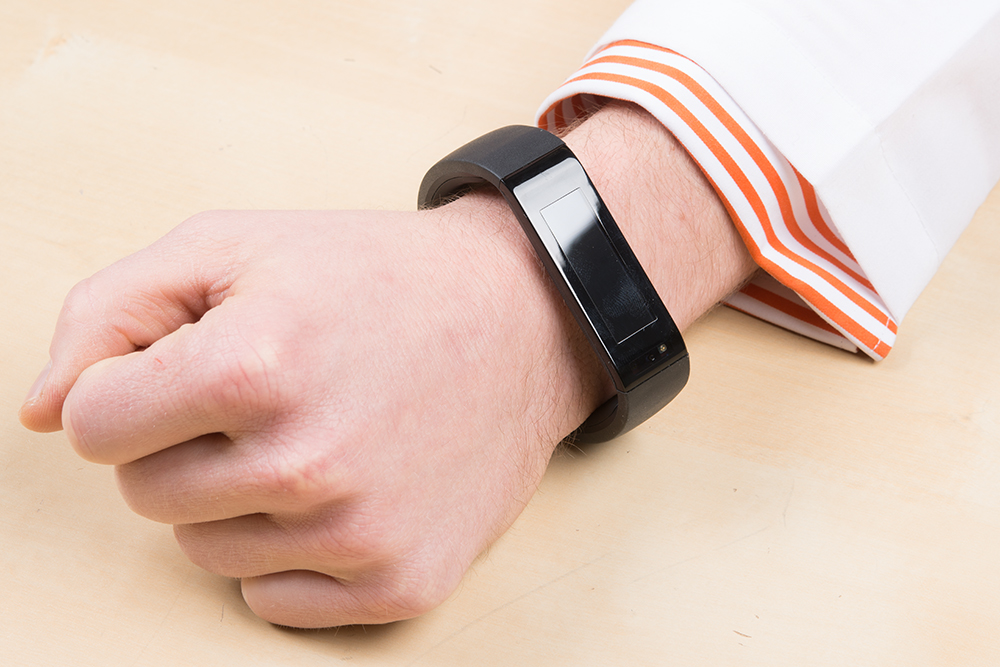 a 1st-generation Microsoft Band being torn down